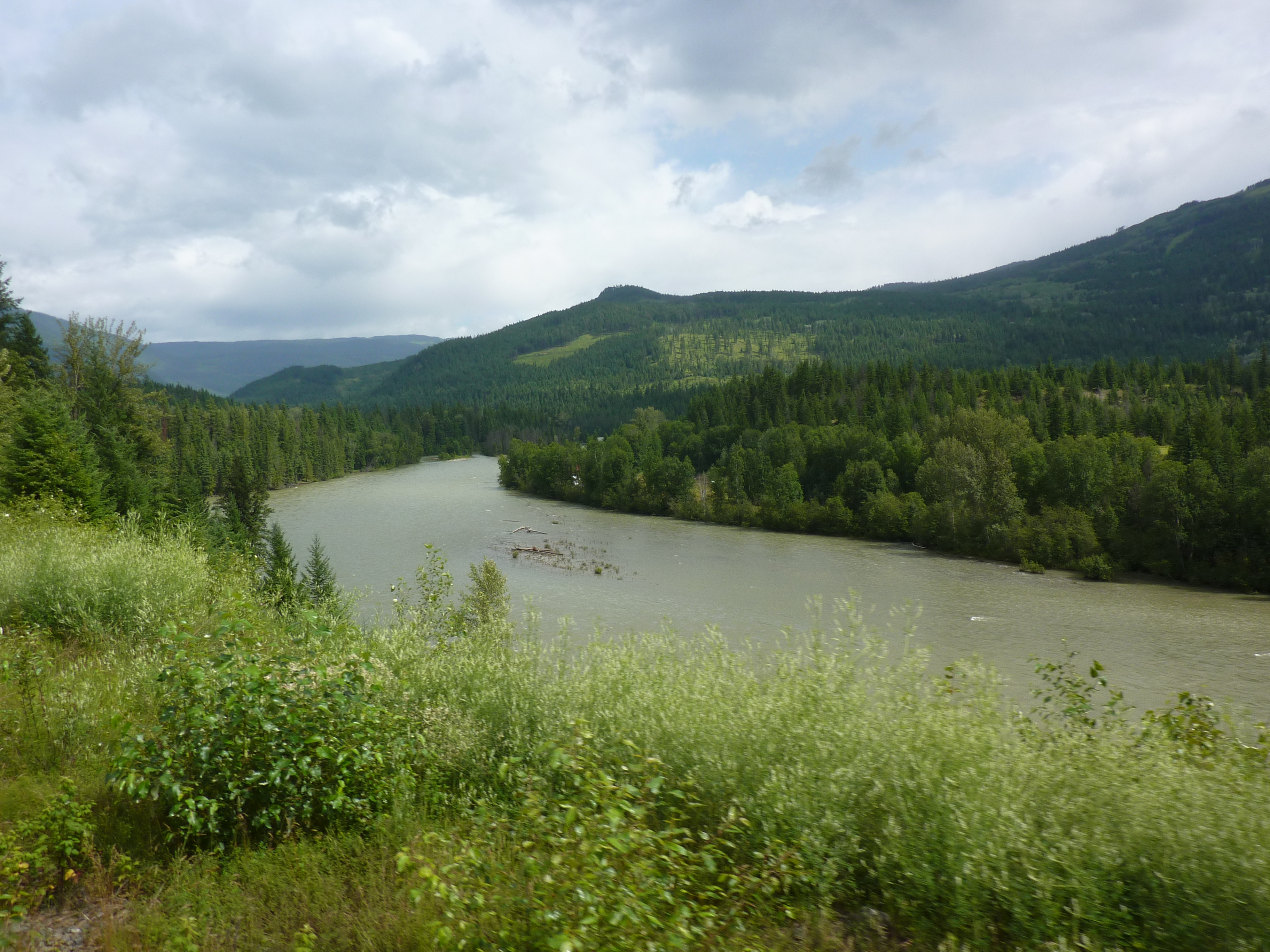 Near Vavenby. This community was supposed to be called Navenby but someone at the post office got it wrong.